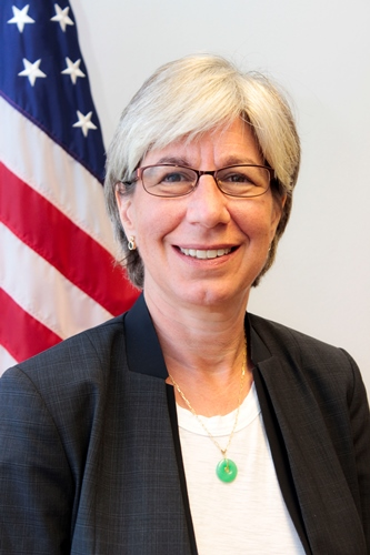 Jill M. Esposito, Deputy Chief of Mission at the Embassy in Reykjavik, Iceland